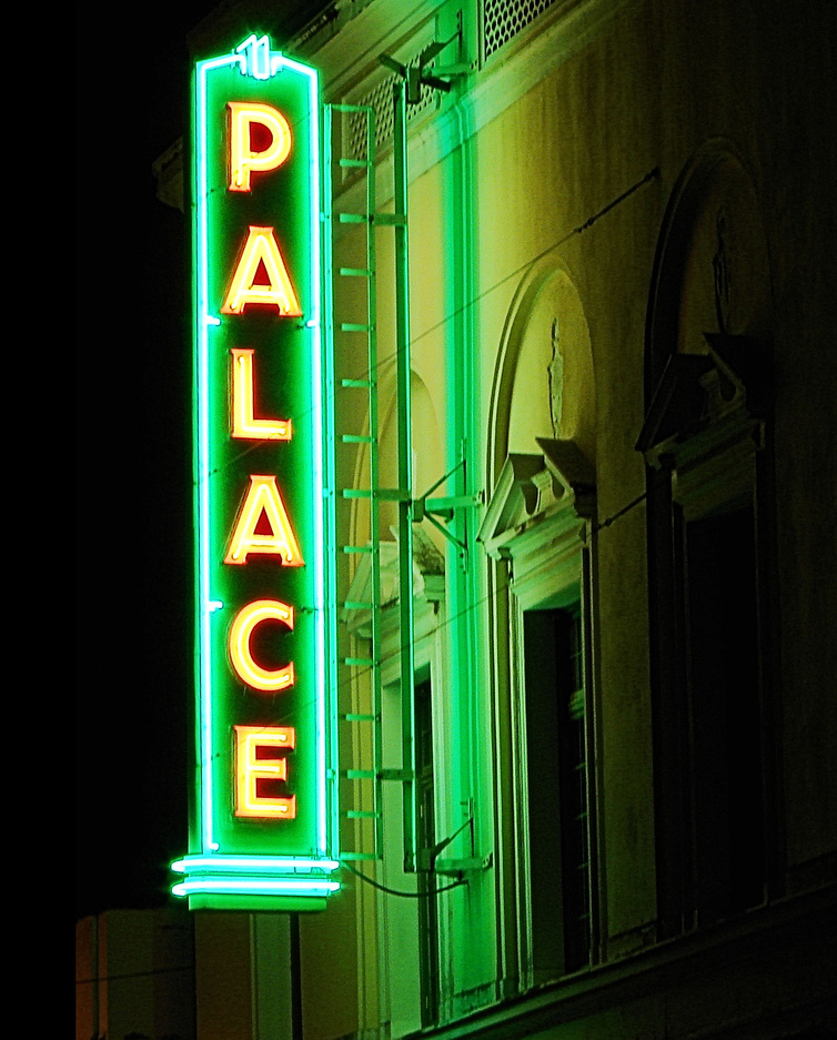 the largest neon sign in Hilo -The Palace Theater was built in the 1920's The Palace was designed to take maximum advantage of its limited property size. The stadium seating arrangement (pre-dating the 'discovery' of stadium seating by modern theatre operators in the 1990s) allowed for unobstructed sight lines, while giving the Palace a very spacious lobby. Designed and built in the days before electronic sound amplification systems, the Palace boasts excellent natural acoustics for live musical groups and drama. One of the most enchanting, nostalgic, and thrilling experiences is the music of the original Robert-Morton pipe organ in concert or before a movie presentation.